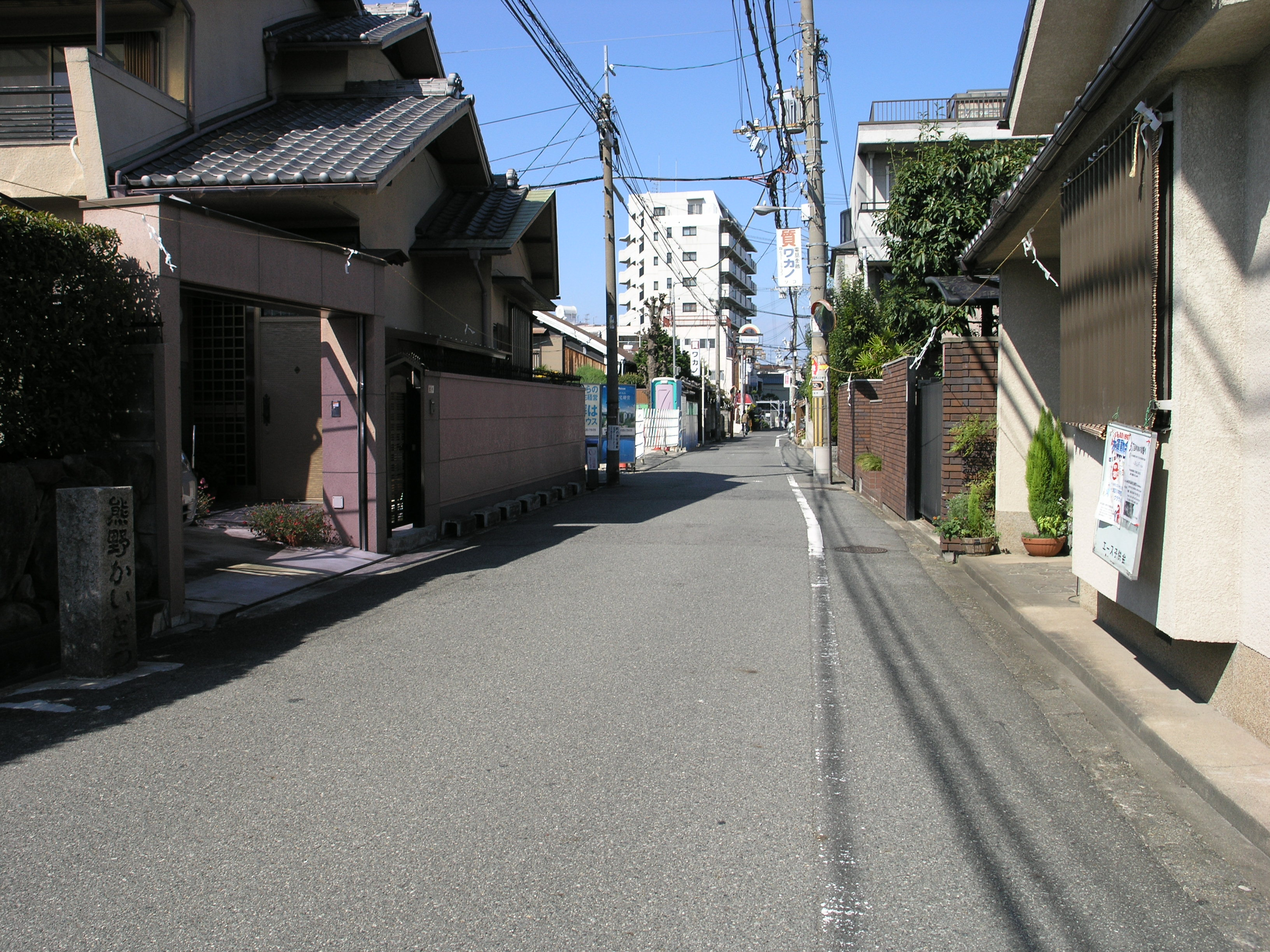 Kumano Kaido, Sumiyoshi, Osaka